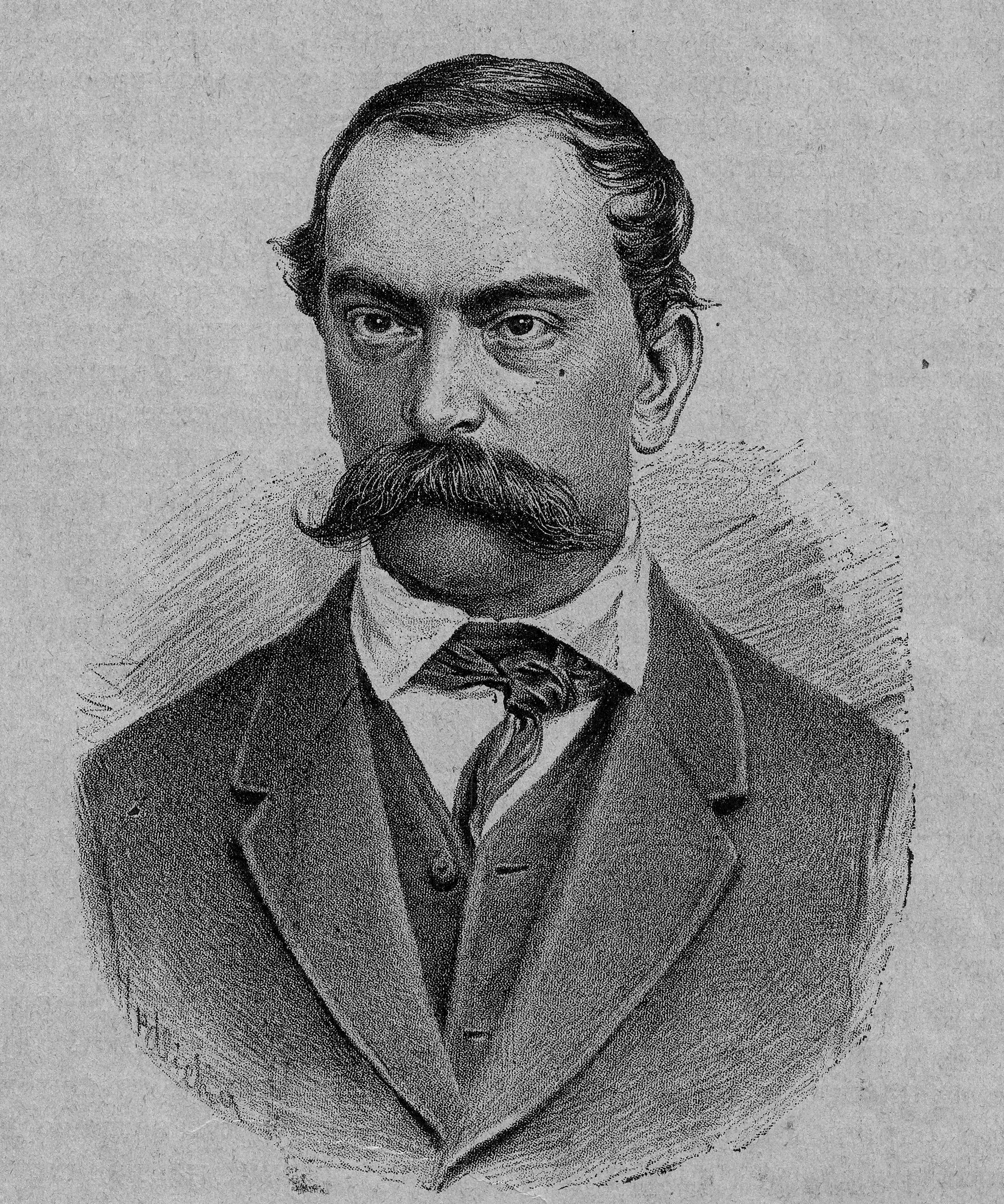 Teodor Mandić (1824-1903), Serbian lawyer, royal advisor and MP in the Hungarian Parliament. Taken from the 1896 edition of the calendar Orao. Srpski (latinica): Teodor Mandić (1824-1903), srpski pravnik, kraljevski savetnik i poslanik u Ugarskom saboru. Preuzeto iz izdanja kalendara Orao za 1896. godinu.